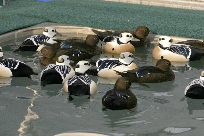 Steller's Eiders (Polysticta stelleri). Image taken at the Alaska SeaLife Center, Seward, Alaska.